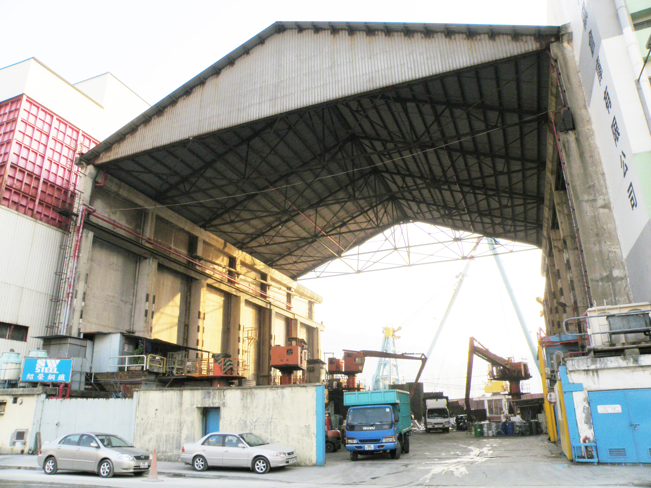 Shiu Wing Steel Factory in Yau Tong, Hong Kong.